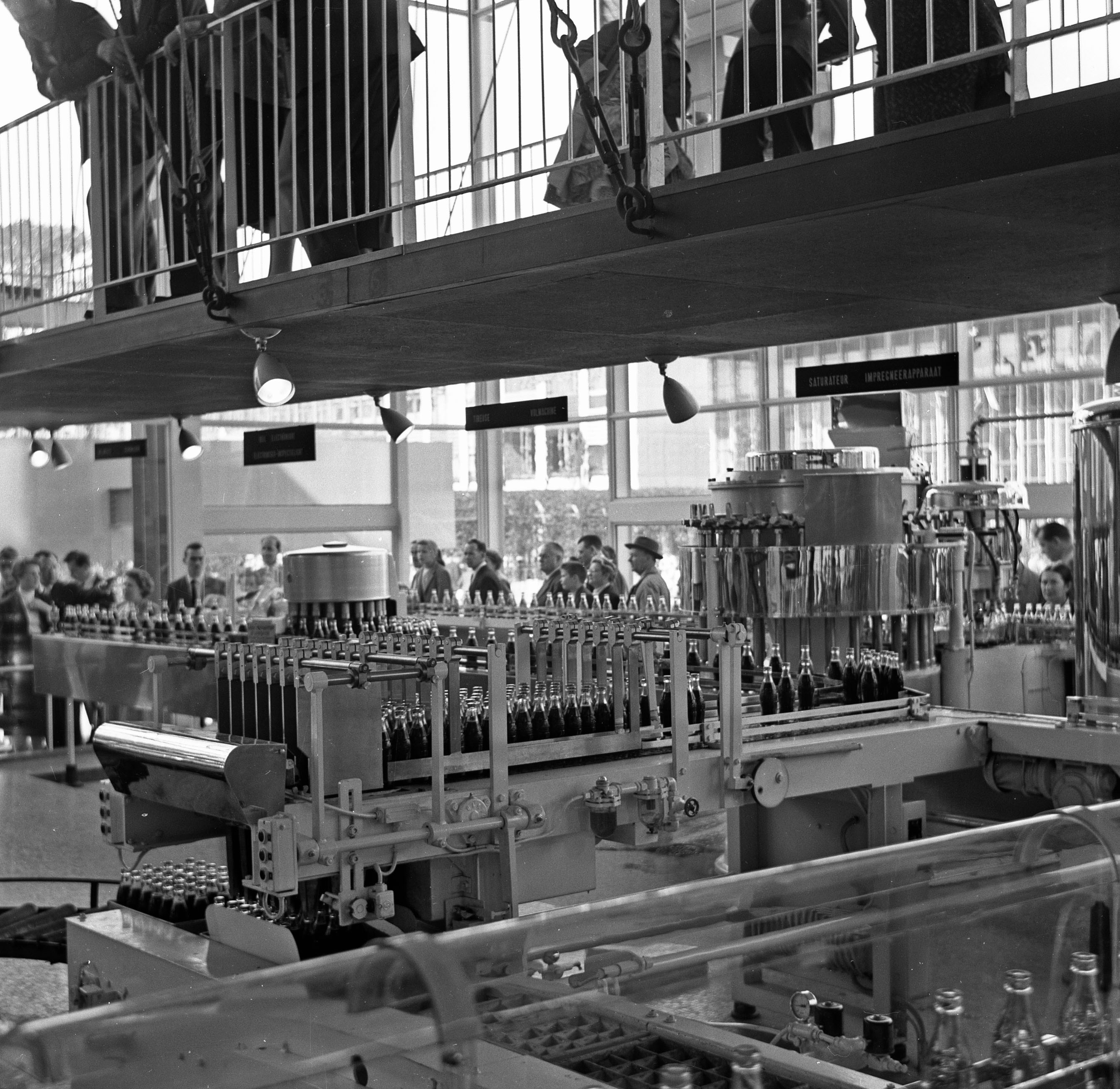 Expo 1958 the Coca Cola factory